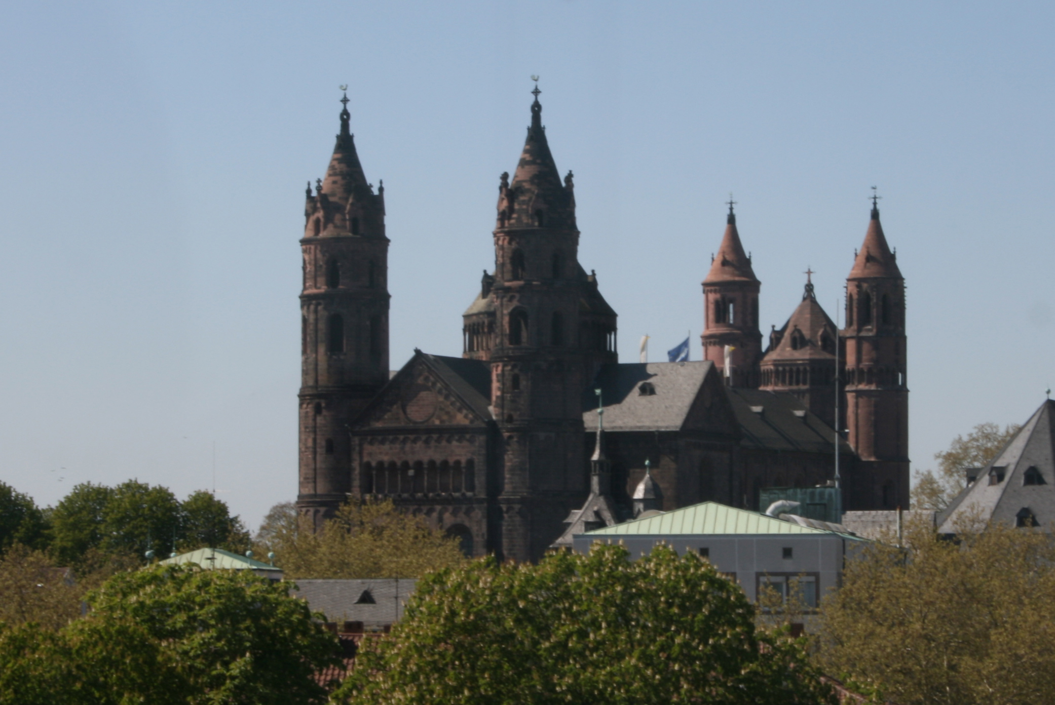 Dom zu Worms, Germany.